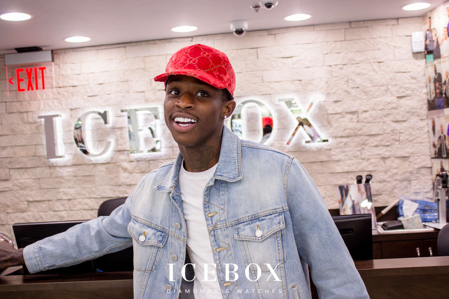 Quando Rondo at Icebox in 2019